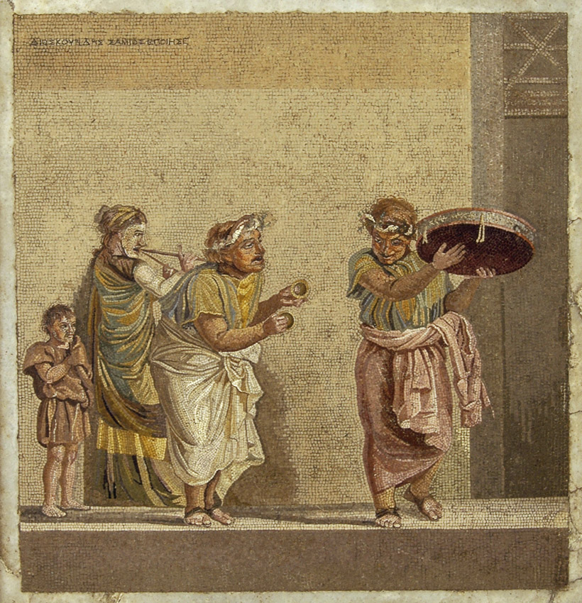 Musician with tympanon. Detail of a roman mosaic of a street scene with musicians from the Villa del Cicerone in Pompeii. Ther mosaic is signed by Dioskurides of Samos. Museo Archeologico Nazionale (Naples).